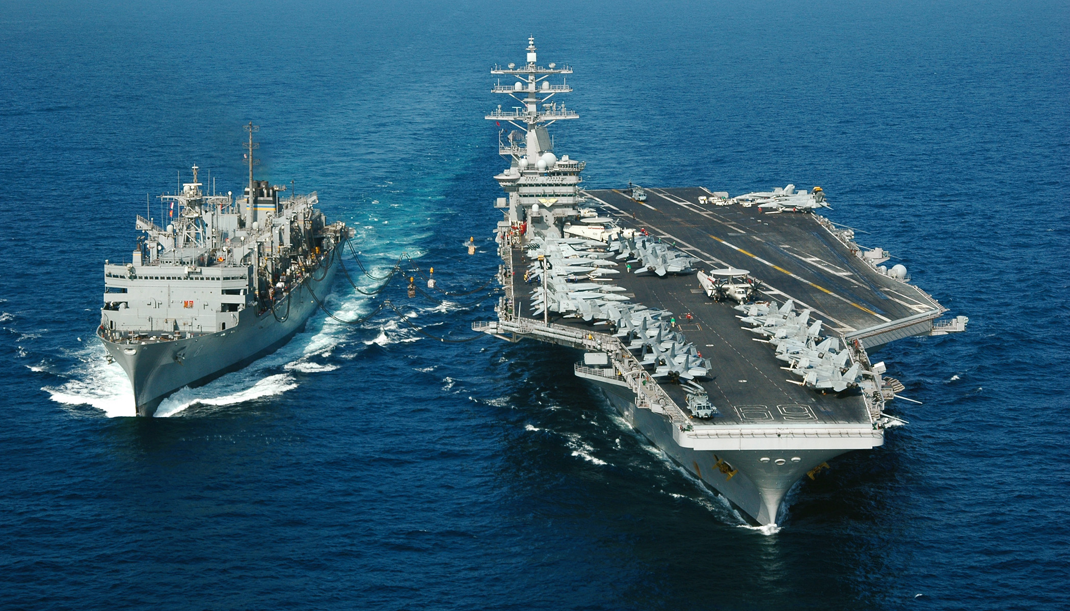 U.S. Naval Forces Central Command Area of Responsibility (Jan. 15, 2007) – The Military Sealift Command (MSC) fast combat support ship USNS Arctic (T-AOE 8) conducts an underway replenishment with the Nimitz-class aircraft carrier USS Dwight D. Eisenhower (CVN 69). Eisenhower and embarked Carrier Air Wing Seven (CVW-7) are on a regularly scheduled deployment in support of Maritime Security Operations (MSO). U.S. Navy photo by Mass Communication Specialist 2nd Class Miguel Angel Contreras (RELEASED)